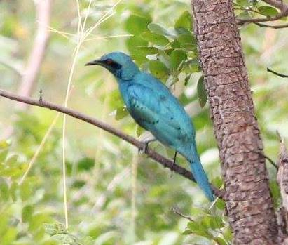 Sharp-tailed starling near the source of the Cuanavale river in Angola